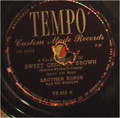 Record label from TEMPO Records for the Sweet Georgia Brown Recording by Brother Bones and His Shadows